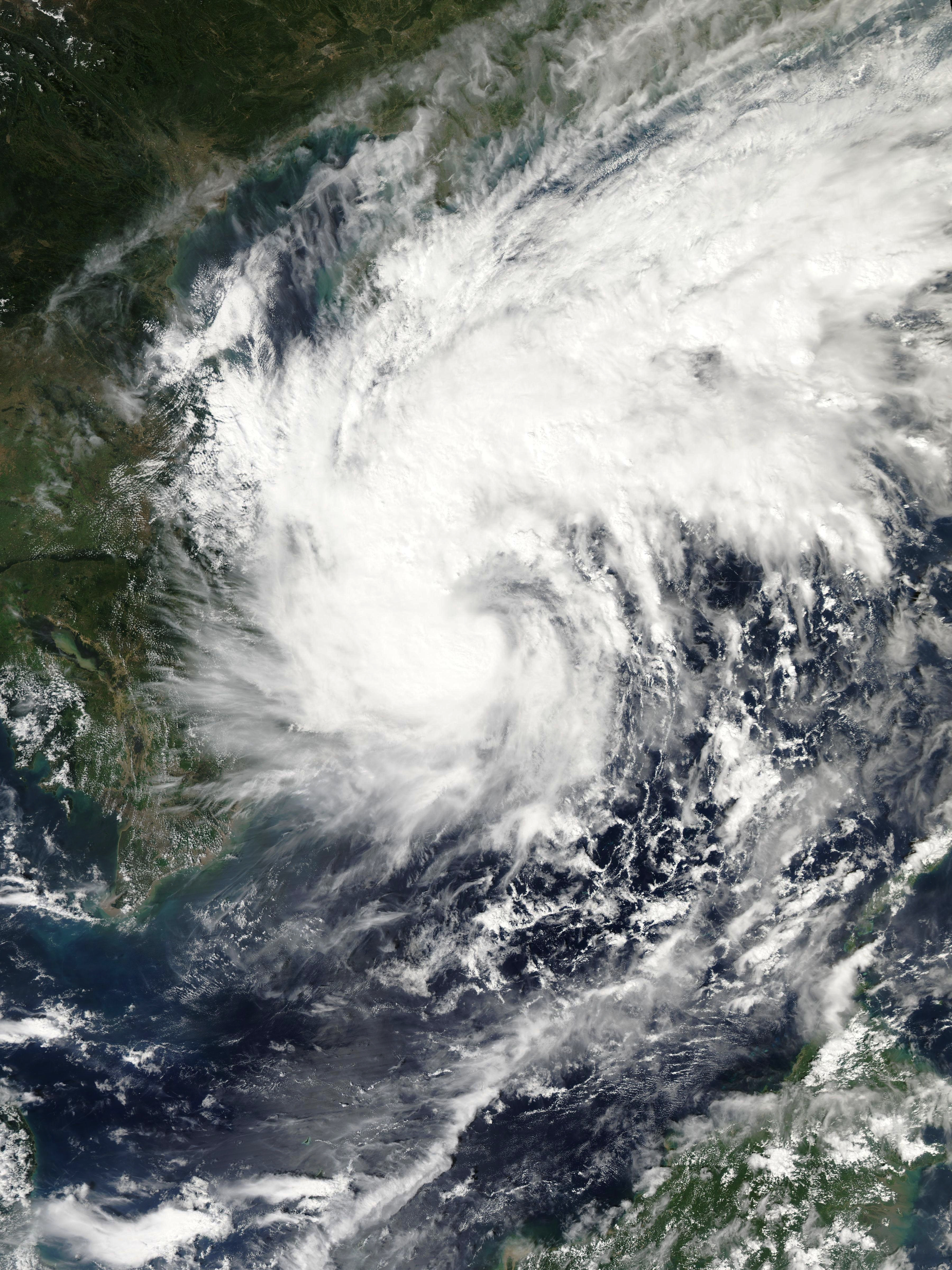 Tropical Storm Matmo on October 30, 2019